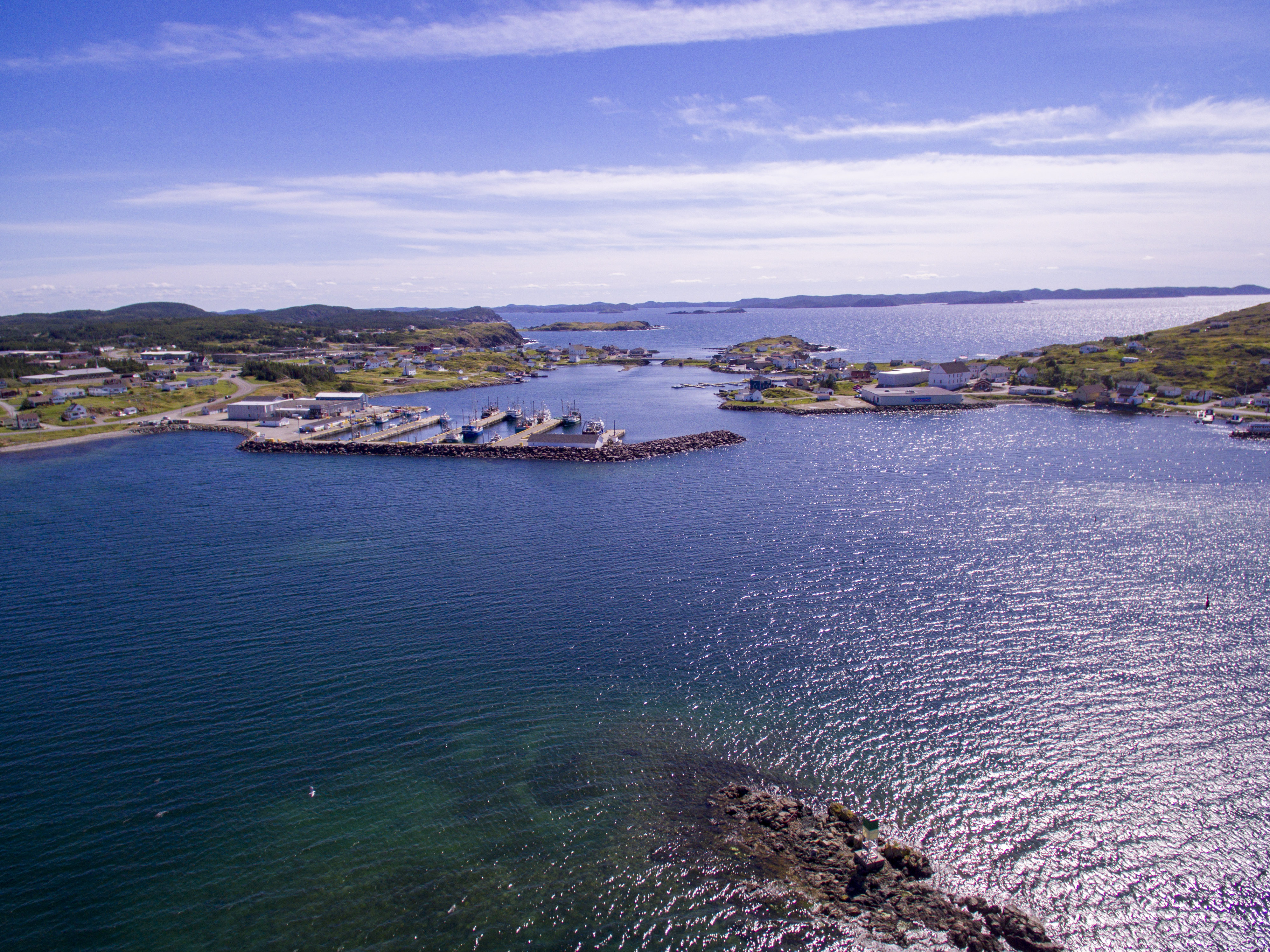 Main harbour of Twillingate, Newfoundland